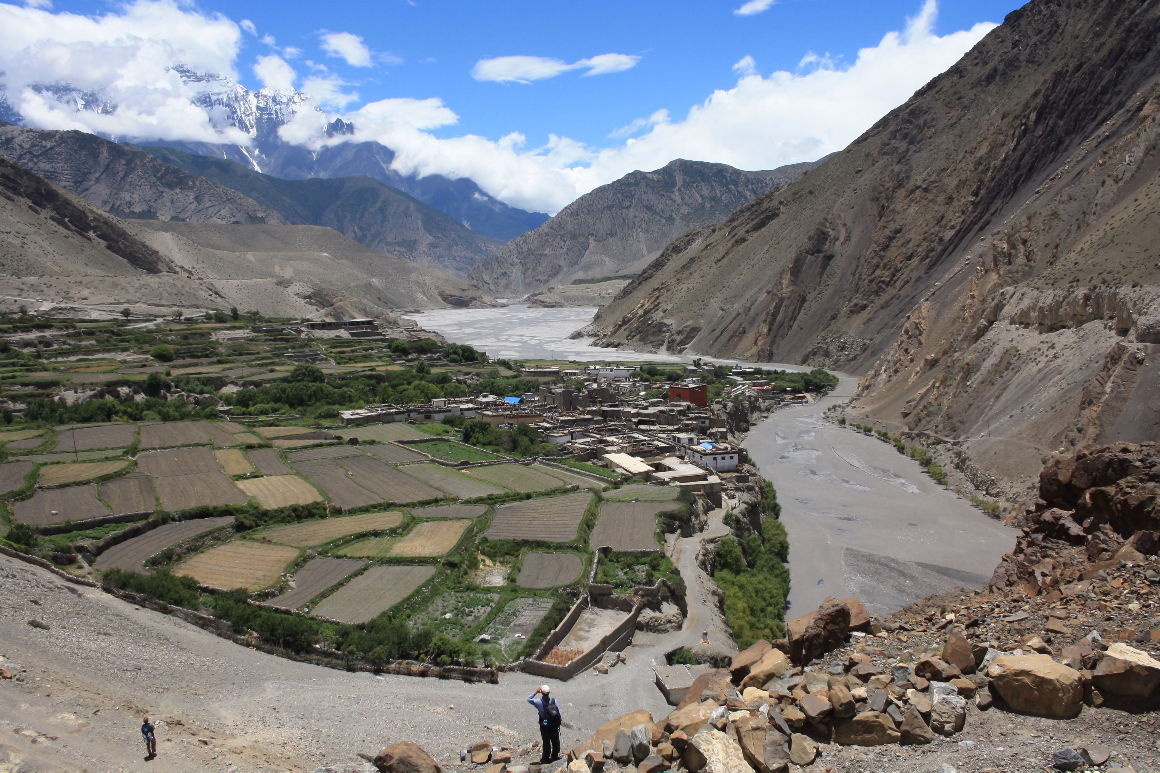 The village of Kagbeni, Nepal on Gandaki River seen from a hill nearby. Looking southwards/ downstream.